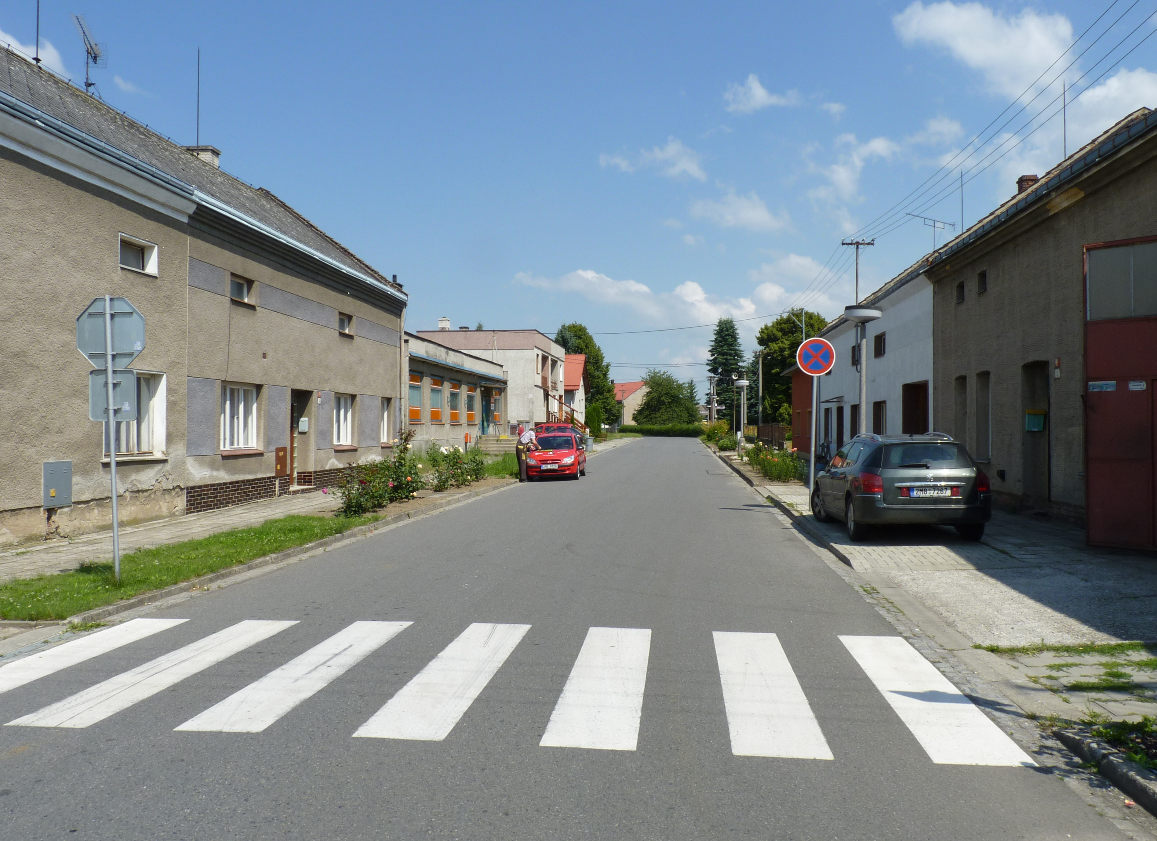 Přerov - Henčlov. Přerov District, Olomouc Region, Czech Republic